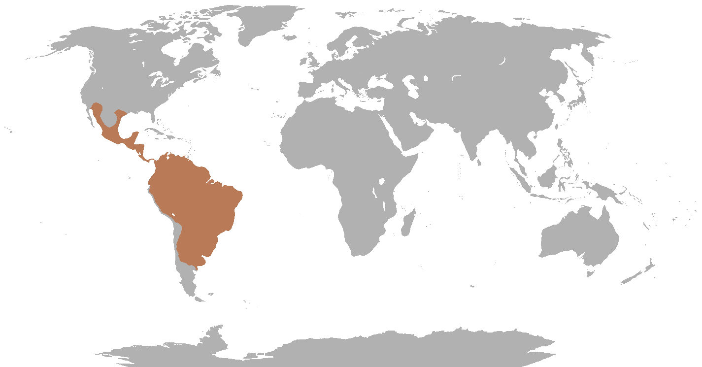 Map showing the range of the Javelina and allies.